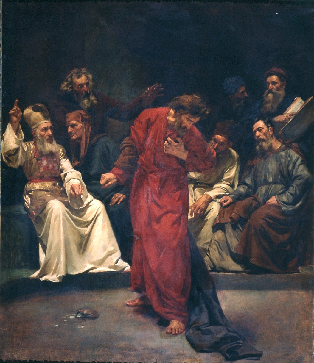 Repentance of Judas (1874),Simó Gómez i Polo's (1845-1880) oil on canvas, 201 x 171 cm, Reial Acadèmia Catalana de Belles Arts de Sant Jordi (inv. 278)